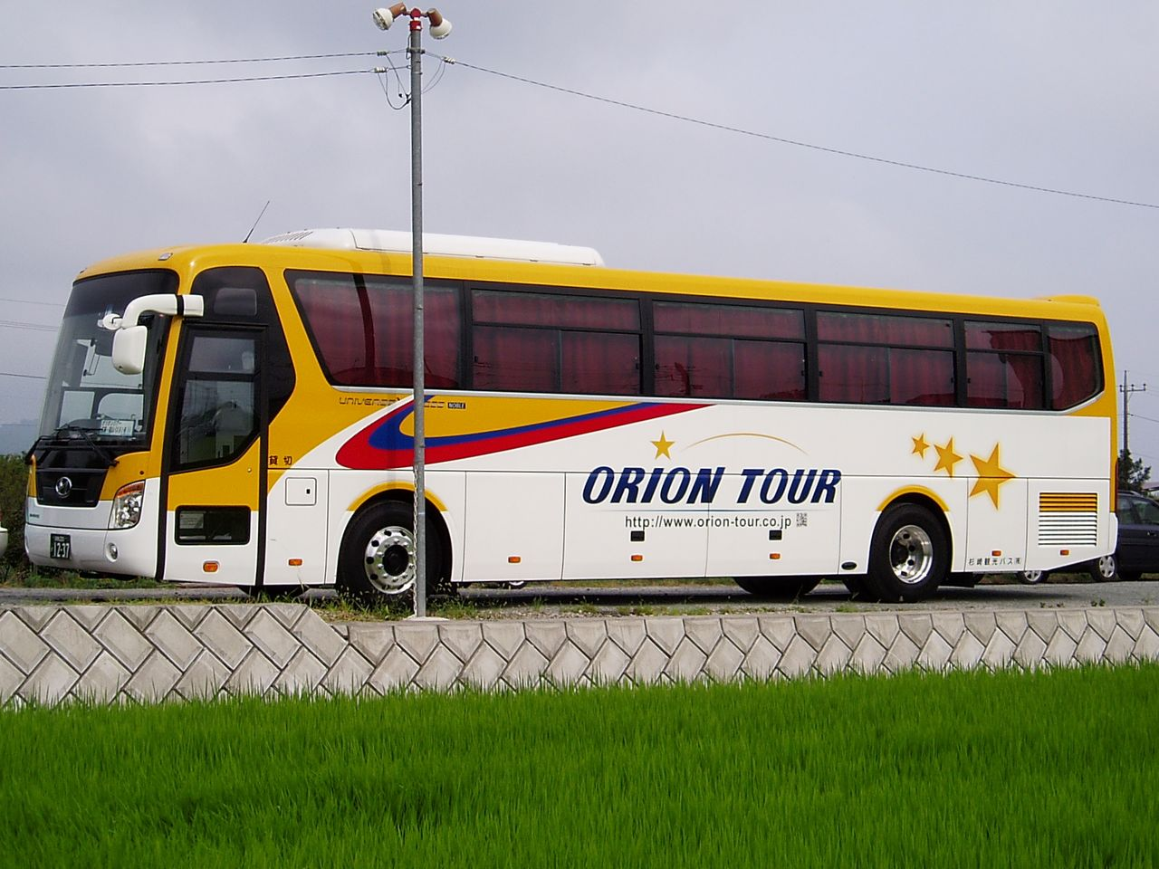 Sugizaki Kanko Bus "Orion Tour" Hyundai Universe (Japan Version)